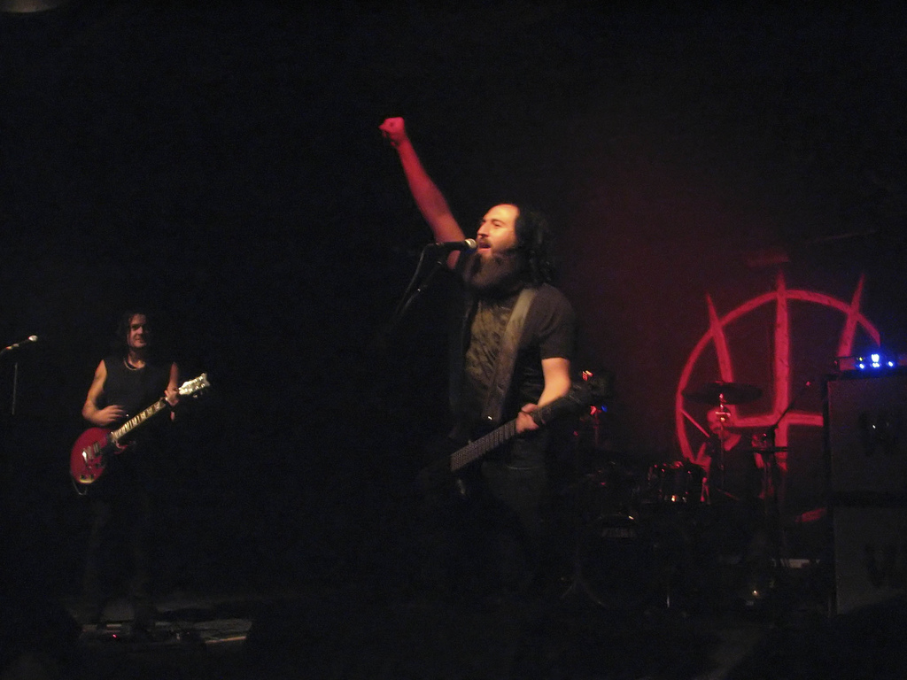 Prong band photo 2017.